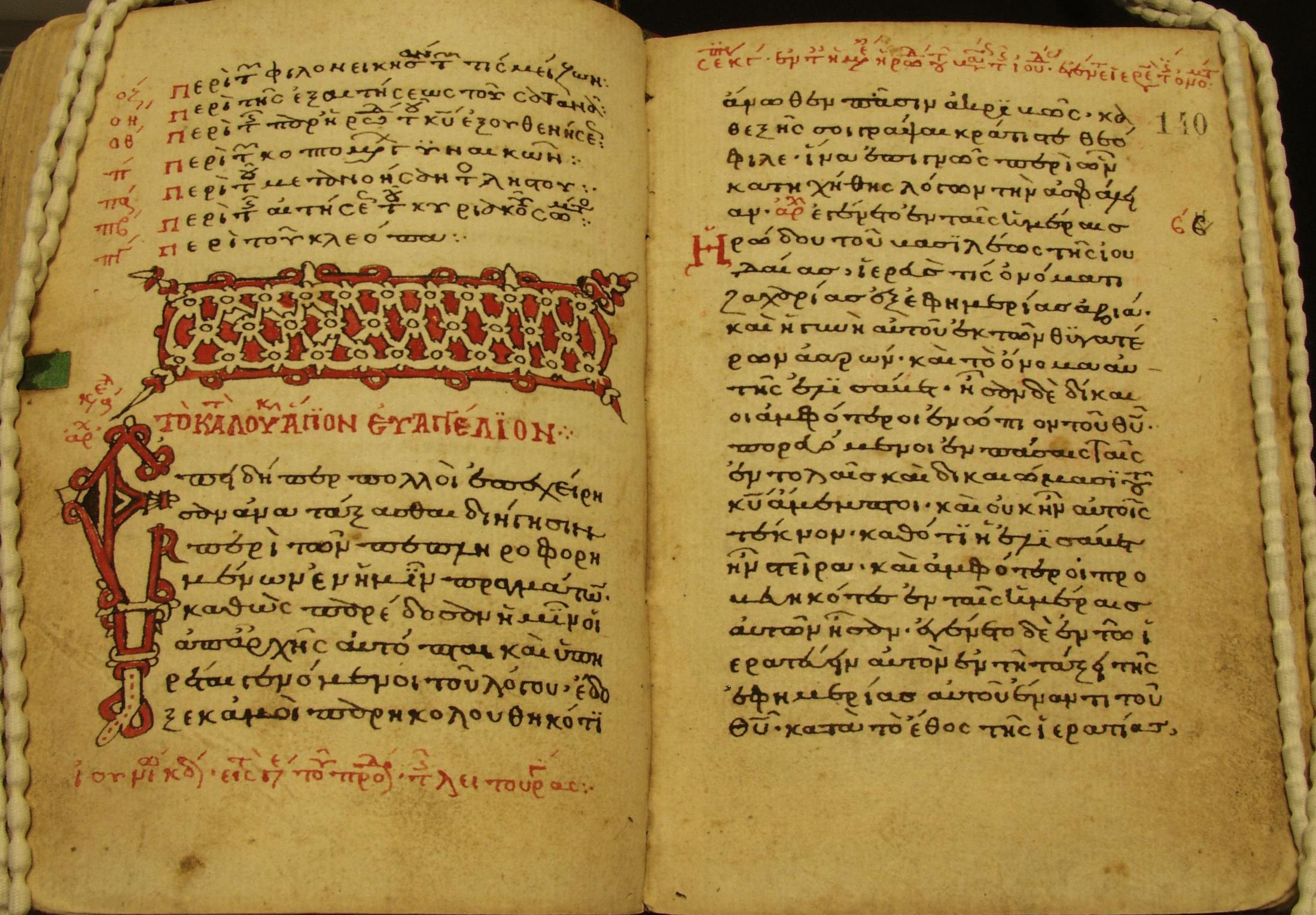 the first page of the Gospel of Luke